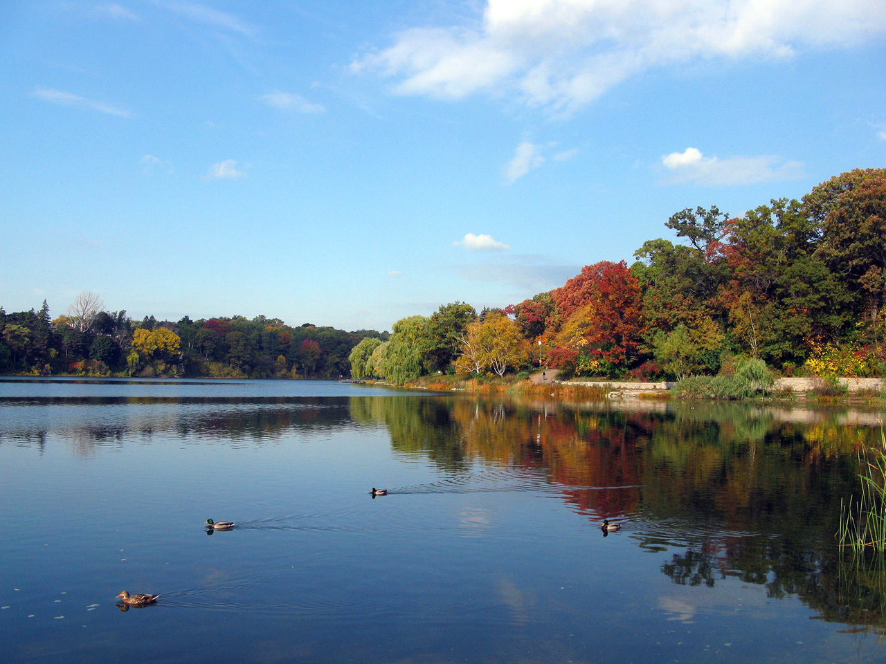 Grenadier Pond with ducks, in Toronto, Ontario, Canada.